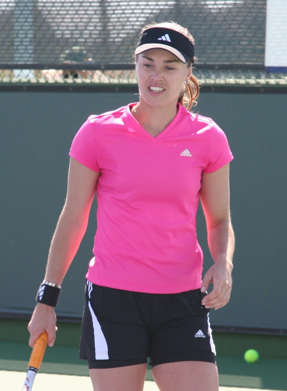 Martina Hingis practicing in Indian Wells, California, USA, on Sunday March 12, 2006, on a side court in 2006 comeback.